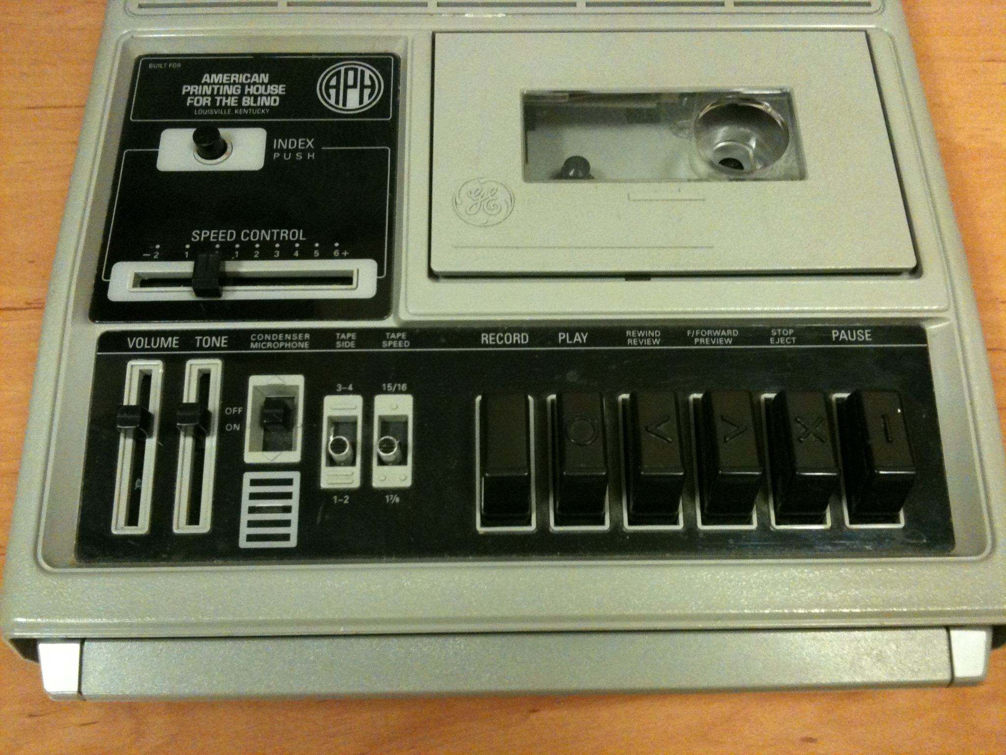 Cassette Player and Recorder for the Blind. Used also by persons with dyslexia or attention deficit. Suitable for books on tapes and lecture recording. Has many spatial functions for making the listening easy, like total control over the listening speed. This device stopped being popular on the mid 1990s.